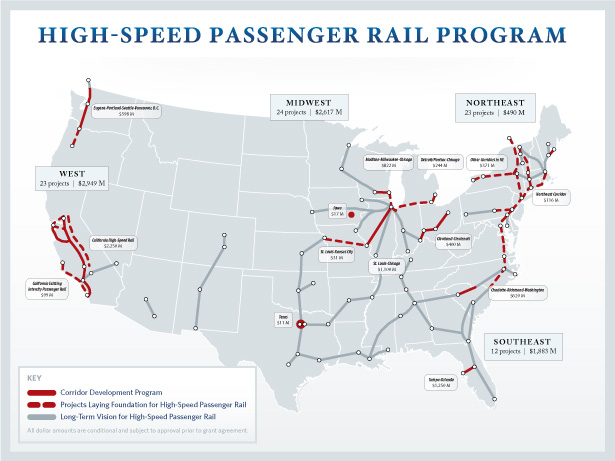 A map showing the grants awarded from the $8 billion for high speed rail in the American Recovery and Reinvestment Act of 2009.